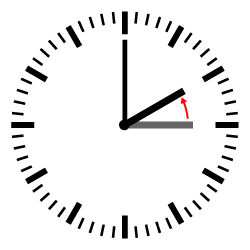 Time change at the end of Daylight Saving Time